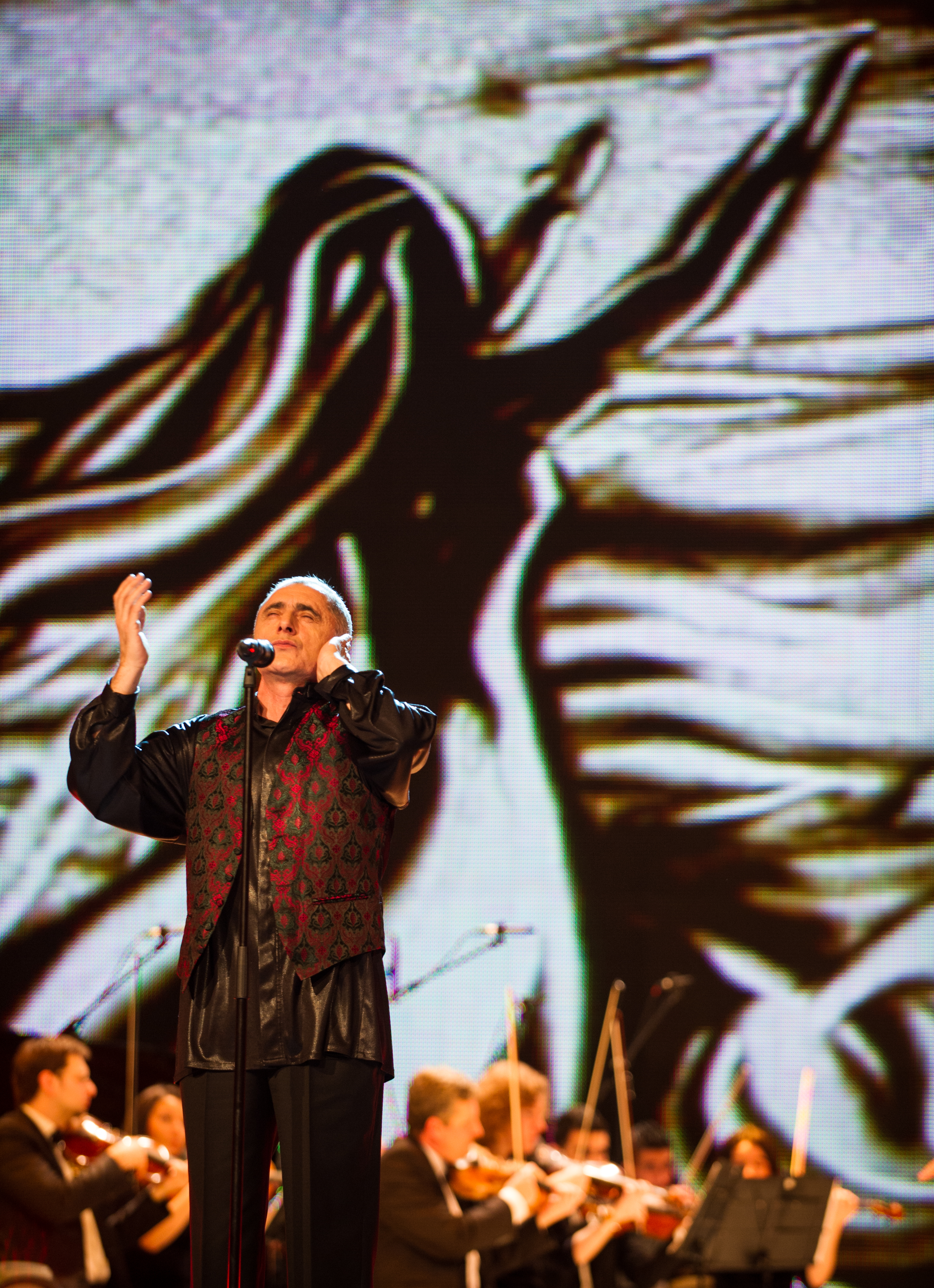 Alim Qasimov is an Azerbaijani musician, and one of the foremost mugam singers in Azerbaijan. In this photo he sings Sari Gelin folk song in Azeri. See the full video of his performance.